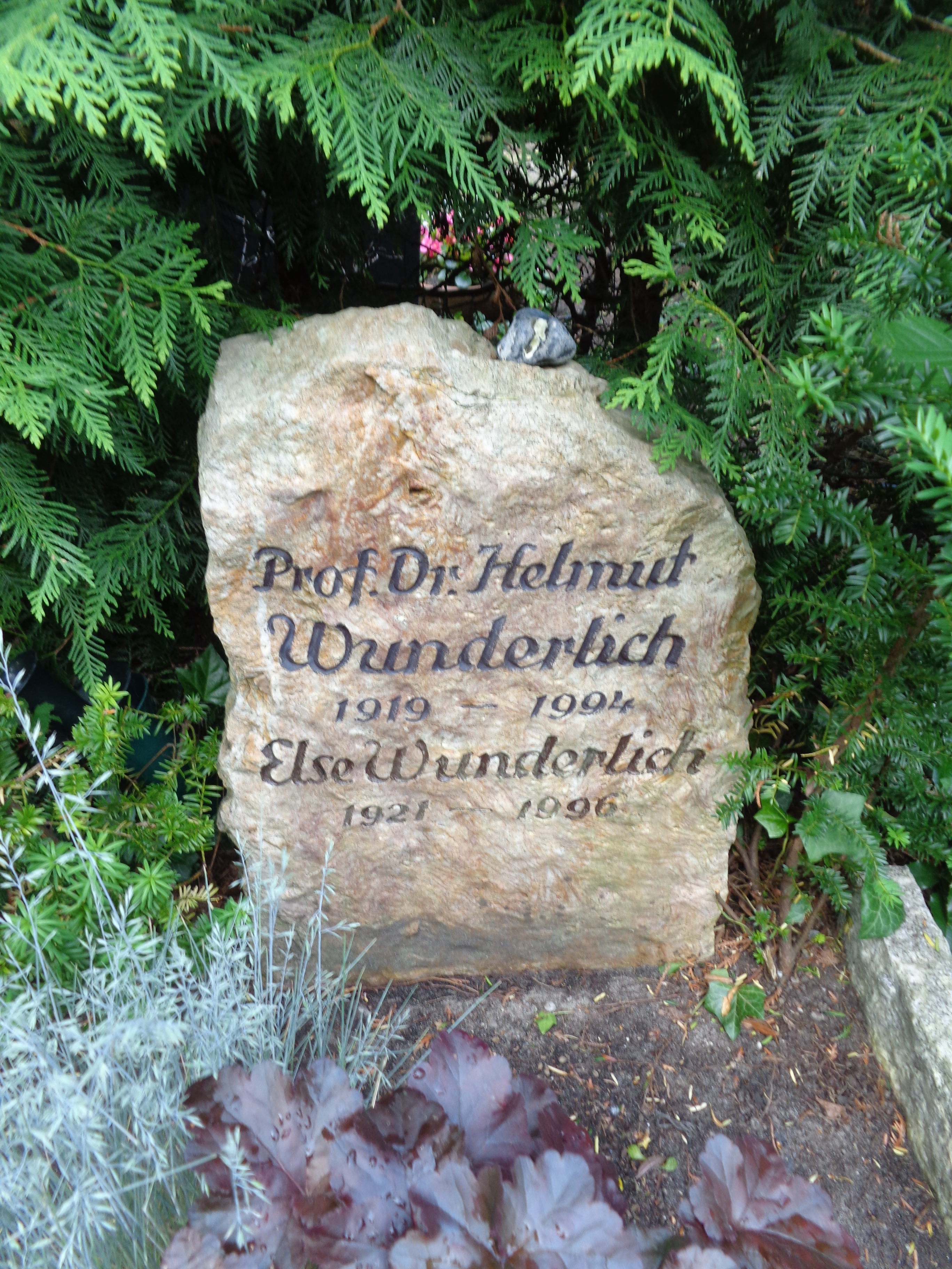 Grave of Helmut (1919-1994) and Anna Wunderlich (1921-1996) at the Waldfriedhof Gruenau in Berlin-Gruenau in June 2017.